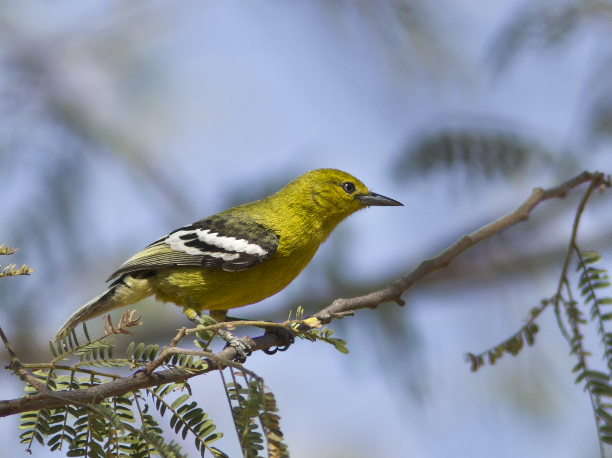 Marshall's Iora